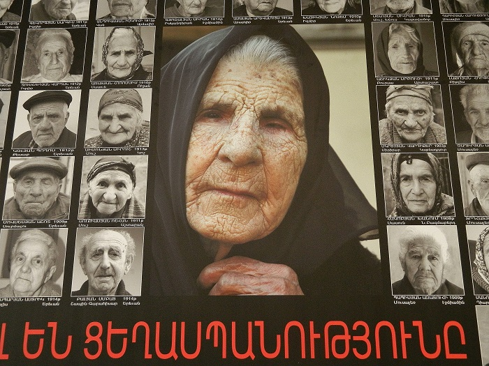 Survivors